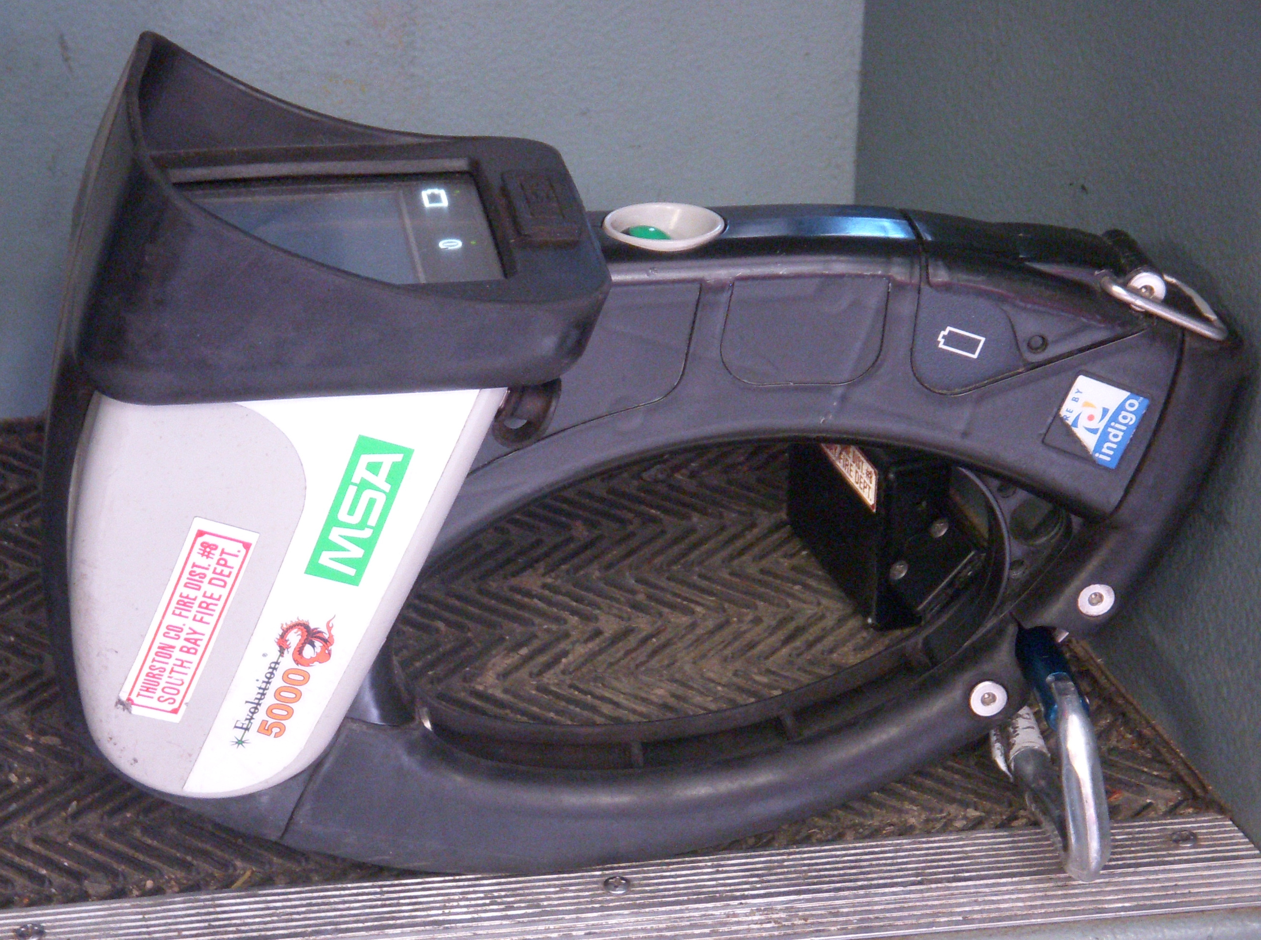 Side view of an MSA thermal imaging camera (TIC) used in firefighting.